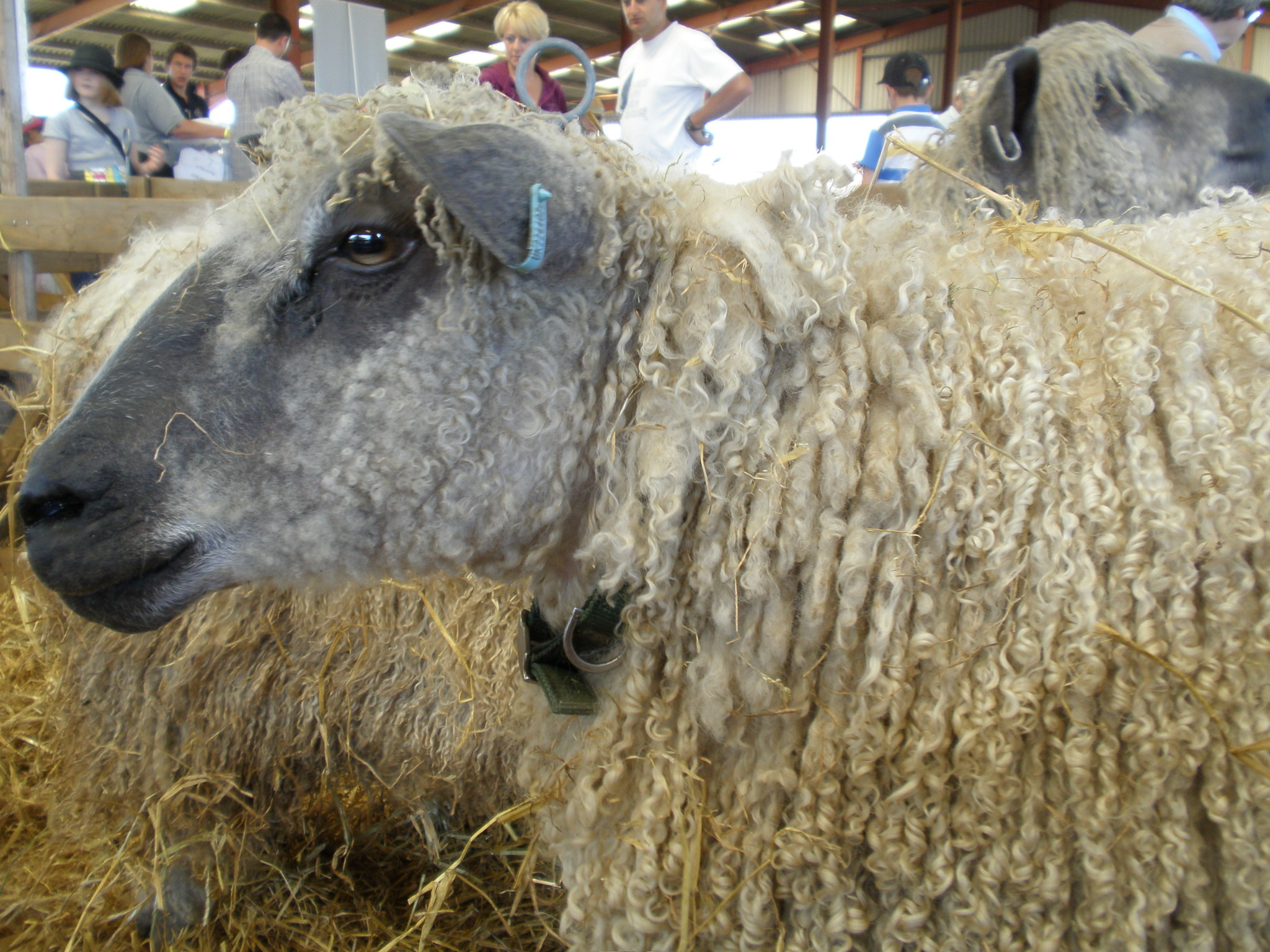 Wensleydale sheep at a Suffolk livestock show.